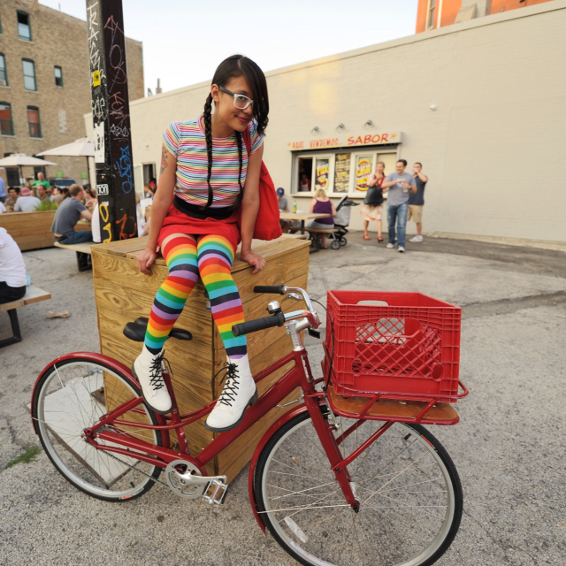 Artist's description: INSPIRATION: Rainbow Brite OUTFIT: thrifted "The Children's Place" tshirt, skirt from Ragstock ACCESSORIES: Leg Avenue thigh high socks, H&M knockoff DMs, self silkscreened bag BIKE: My Little Mixte is a Globe Live 1